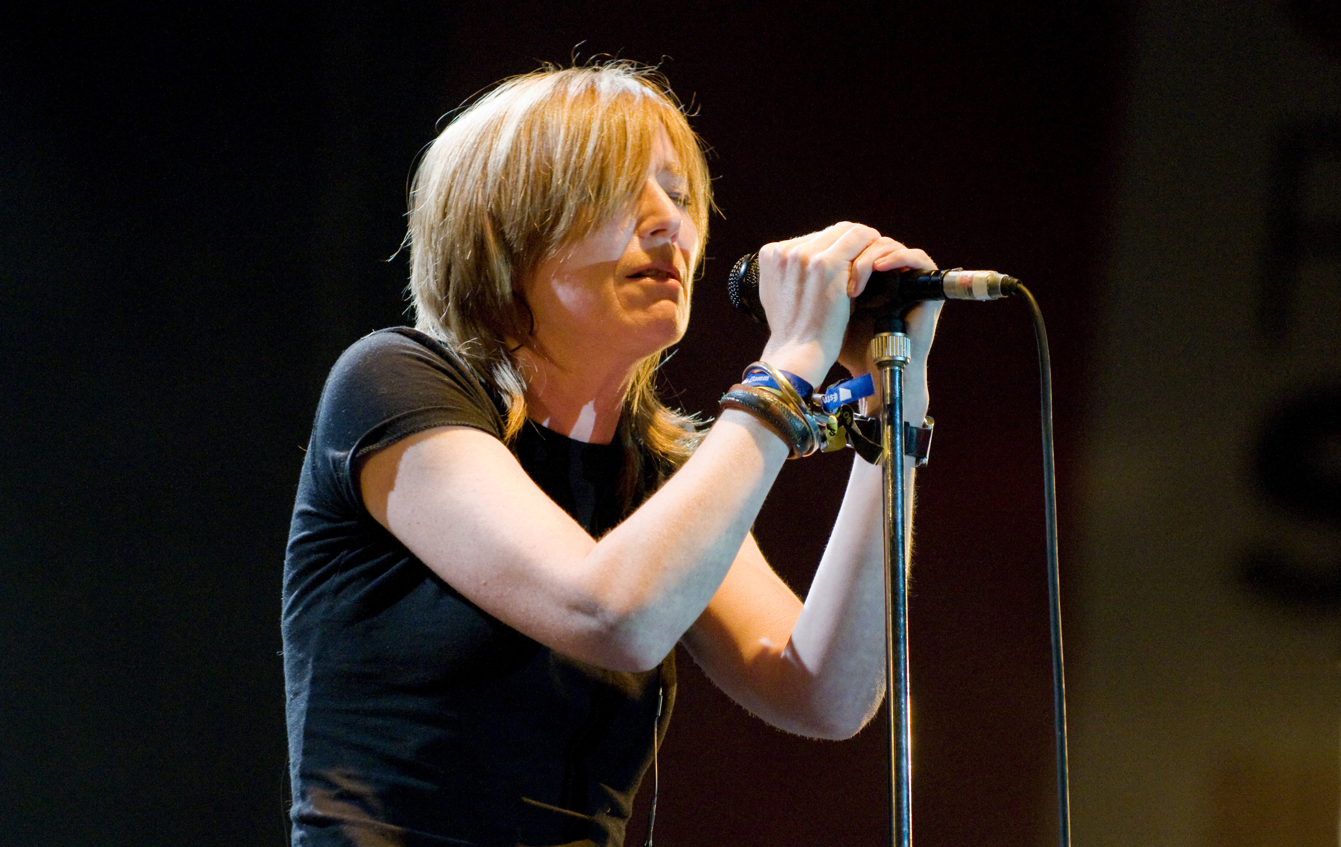 Portishead. Primavera Sound 2008, Barcelona.